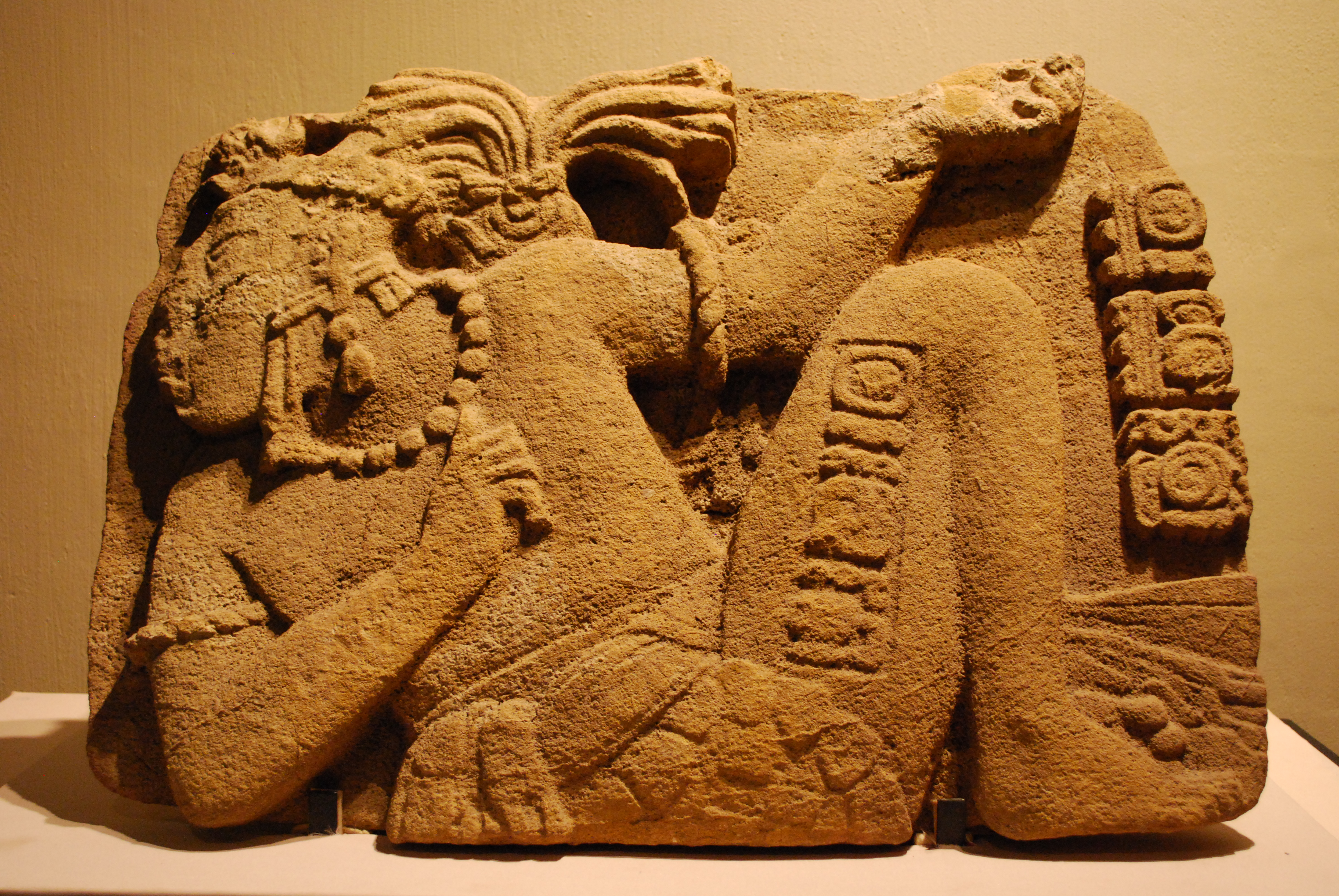 Relief of Palenque ruler Joy Chitam II in a captive's position on a relief from Tonalá, Chiapas (8th century) on display at the Regional Museum in Tuxtla Gutierrez, Chiapas, Mexico